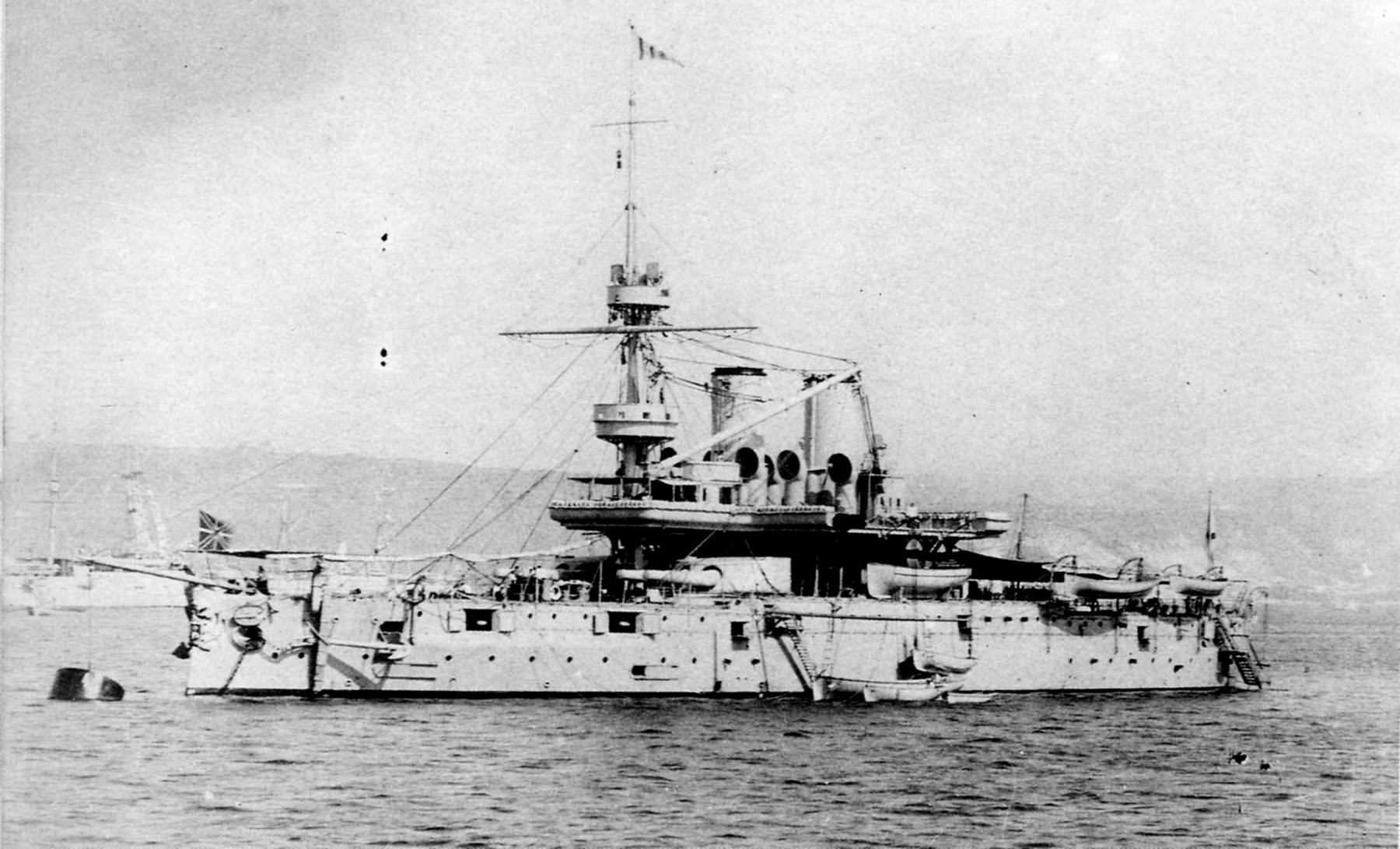 Imperial Russian battleship Georgiy Pobedonosets in Sevastopol.